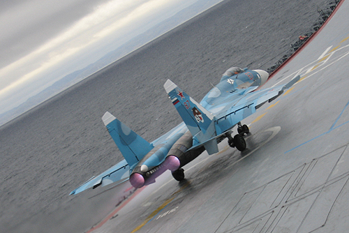 BARENTS SEA. On board the Aircraft Carrier Admiral Kuznetsov.